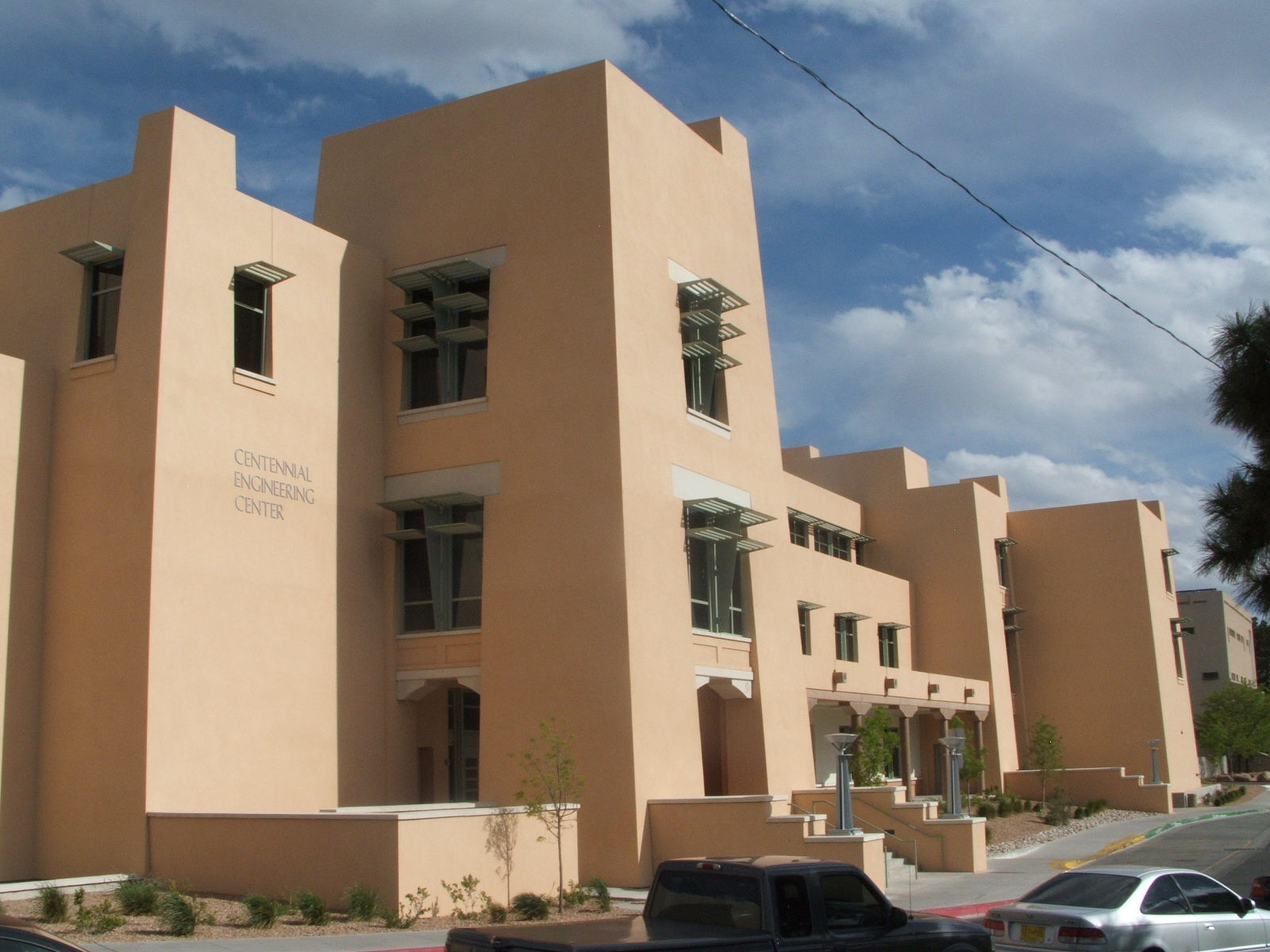 Centennial Engineering Center at UNM.